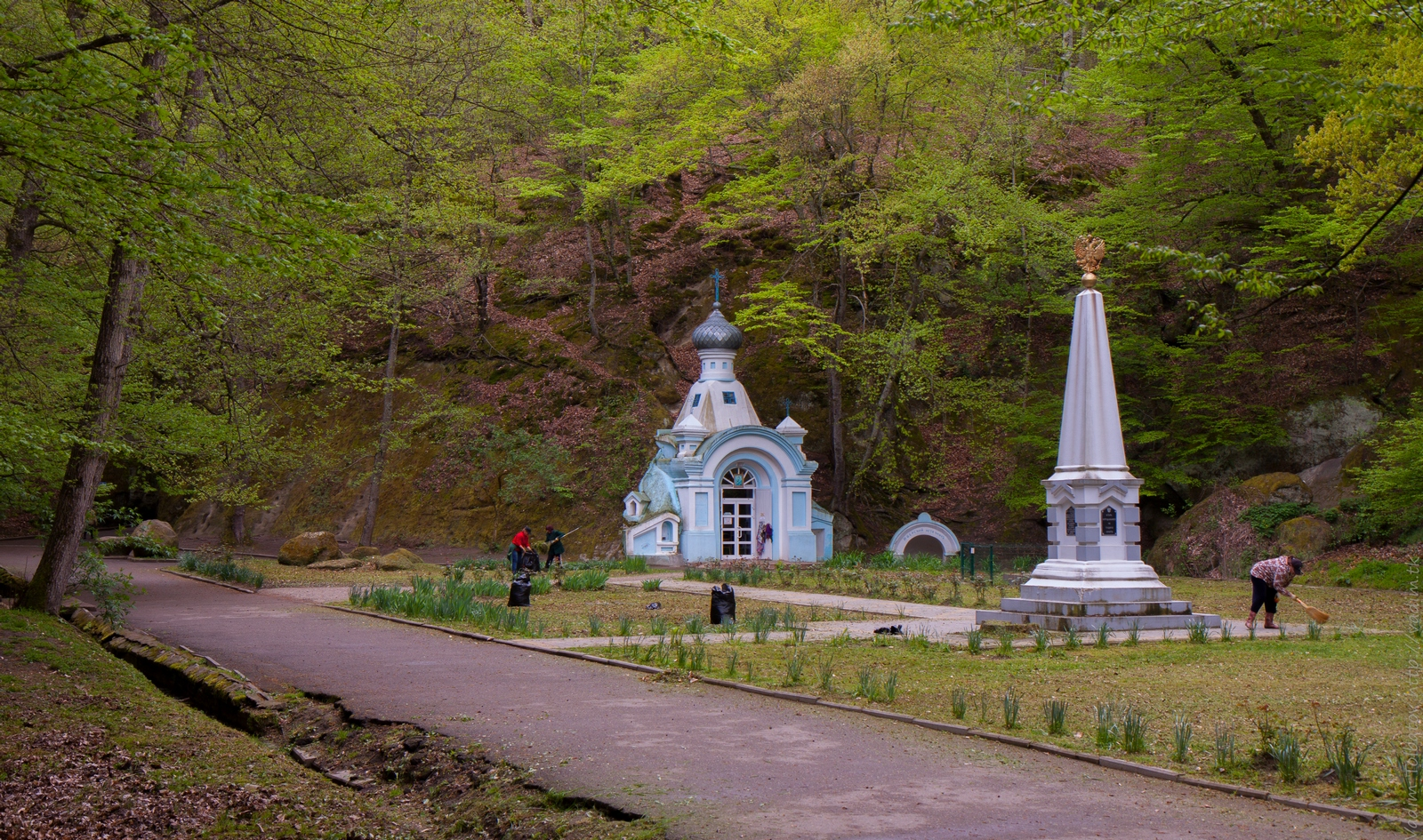 Iverskaya temple (19th century) together with monument to the founders of the resort